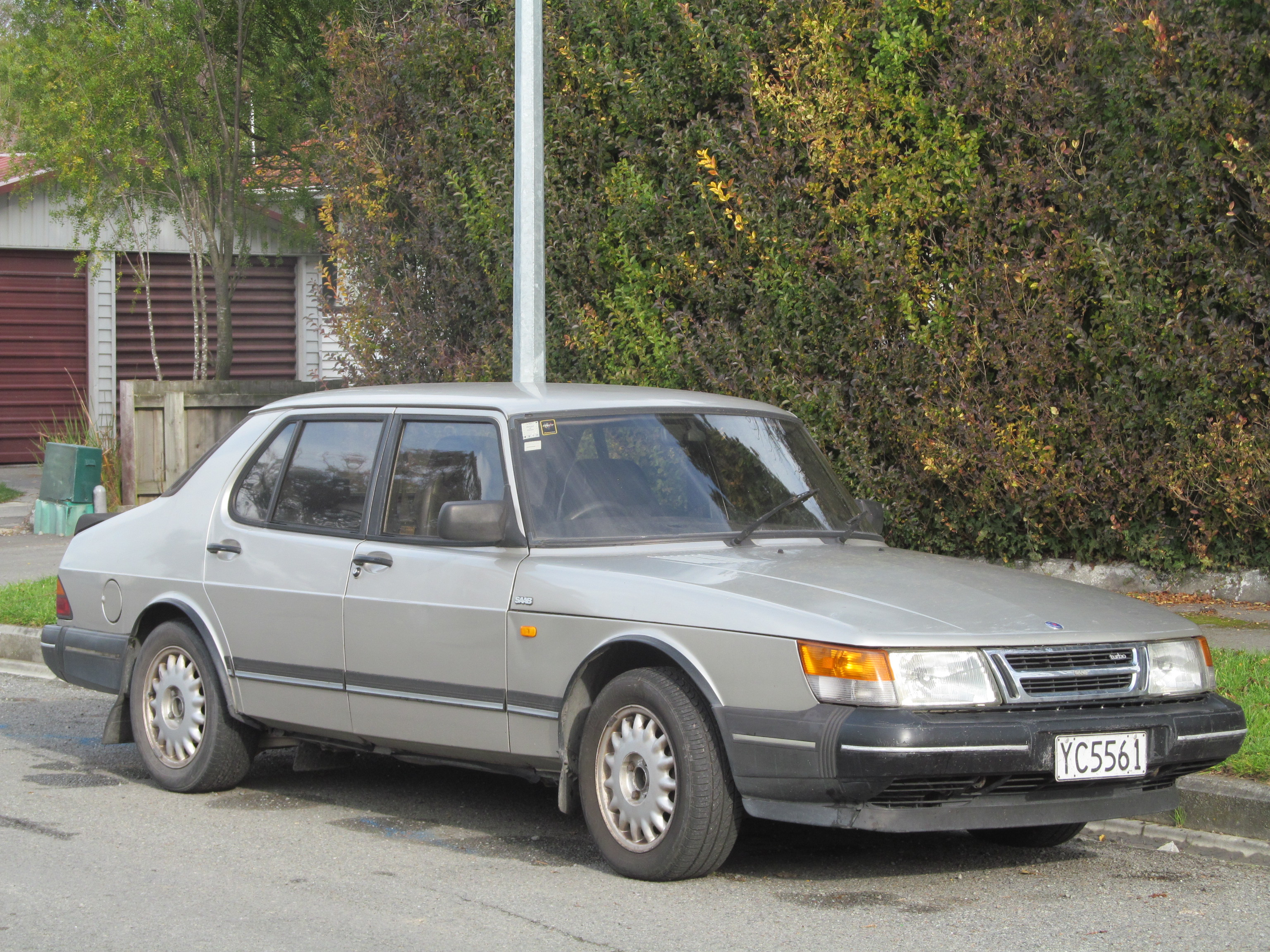 Imported from 'other' in 1999; I'm picking from Singapore or Hong Kong as the odometer is in kilometres.